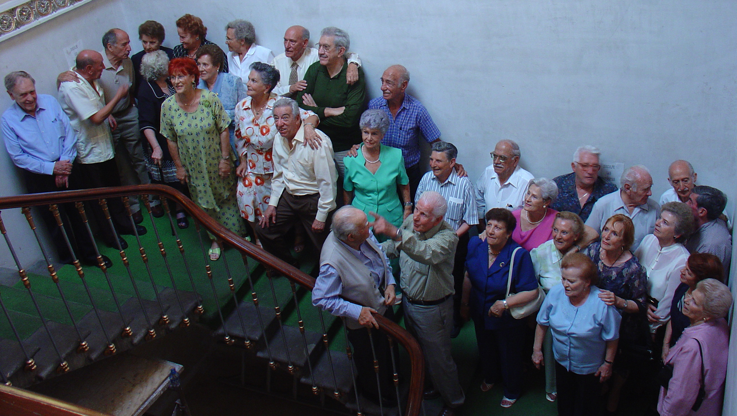 The Niños de Morelia, the Children of Morelia, in a reunion commemorating the 68th anniversary of their arrival in Mexico, 7 June 1937.